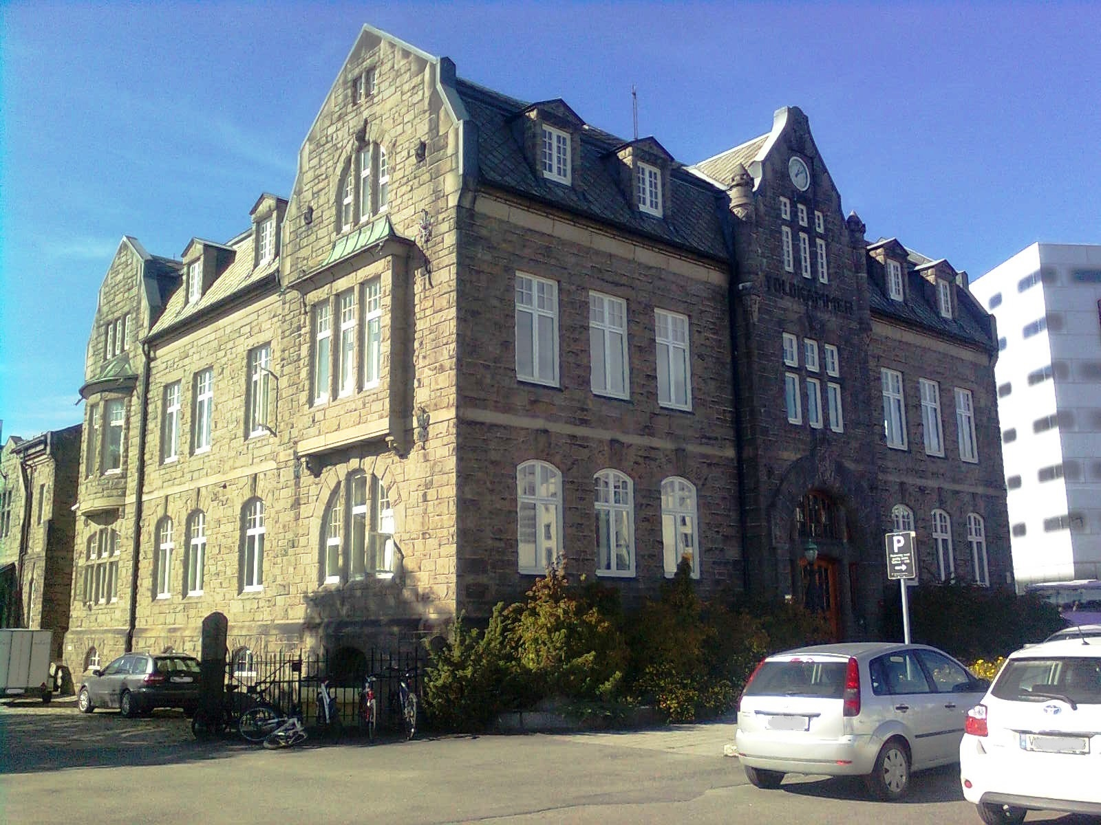 Tollboden is an old custom house in Trondheim. Built in 1911.